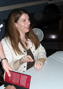 Stephenie Meyer.